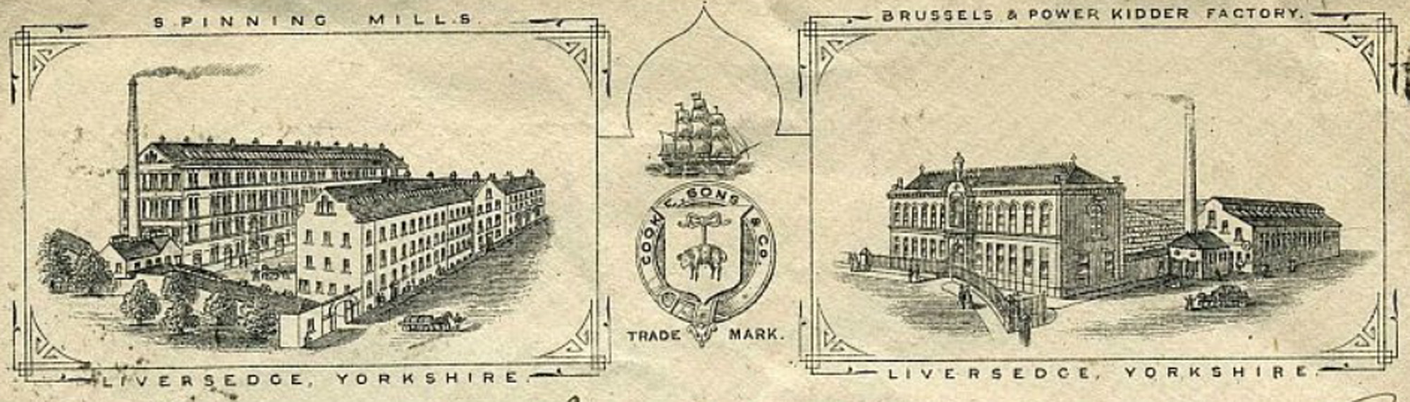 Logo of Cooke, Sons and Co, carpet manufacturers of Liversedge